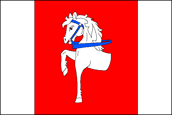 Municipal flag of Hlinsko town, Chrudim District, Czech Republic.